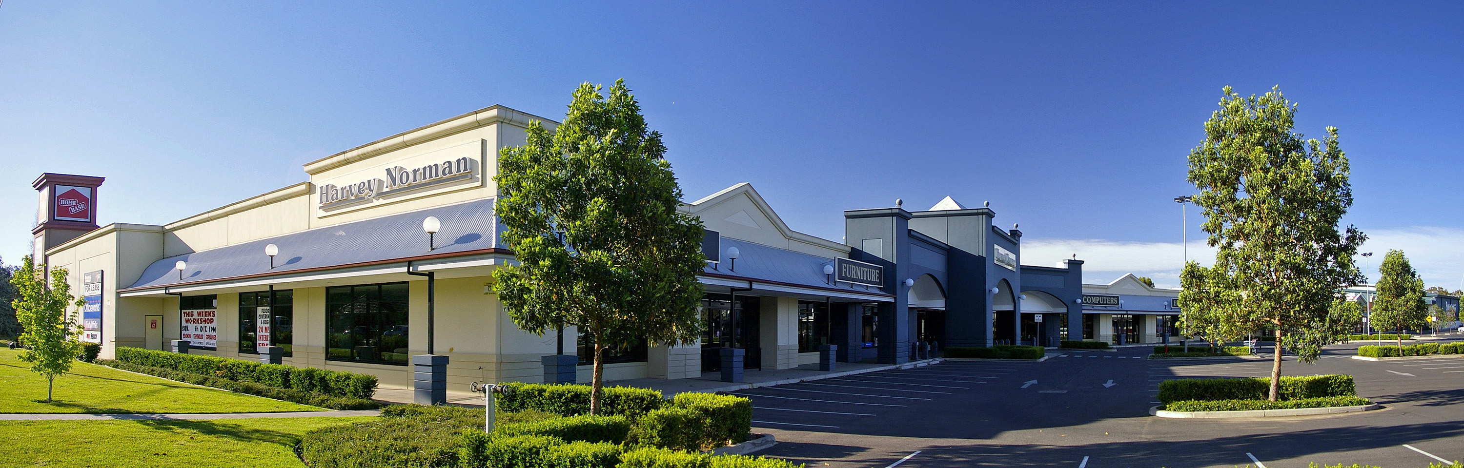 Harvey Norman Superstore at the Wagga Wagga Home Base.